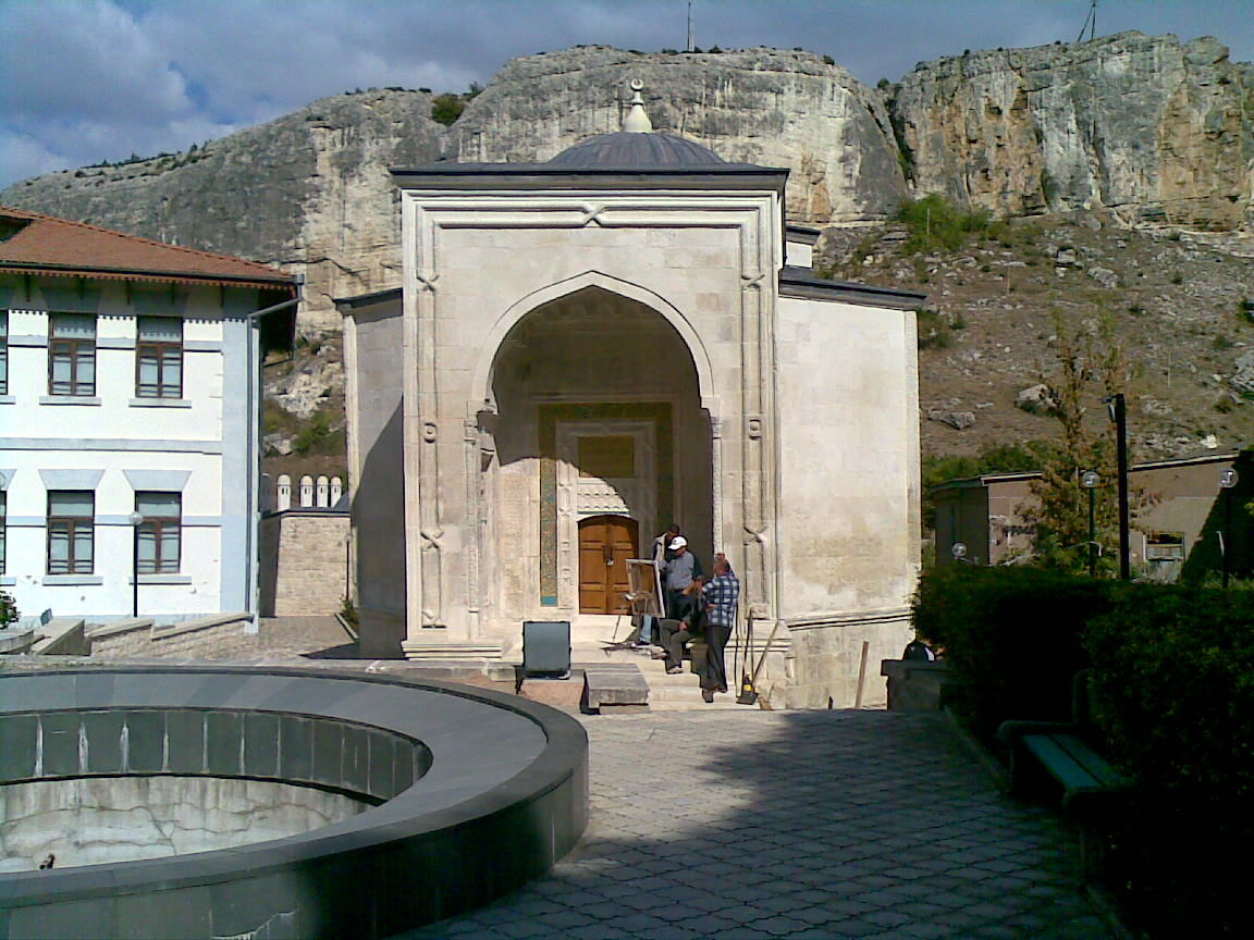 Зинджирли-медресе